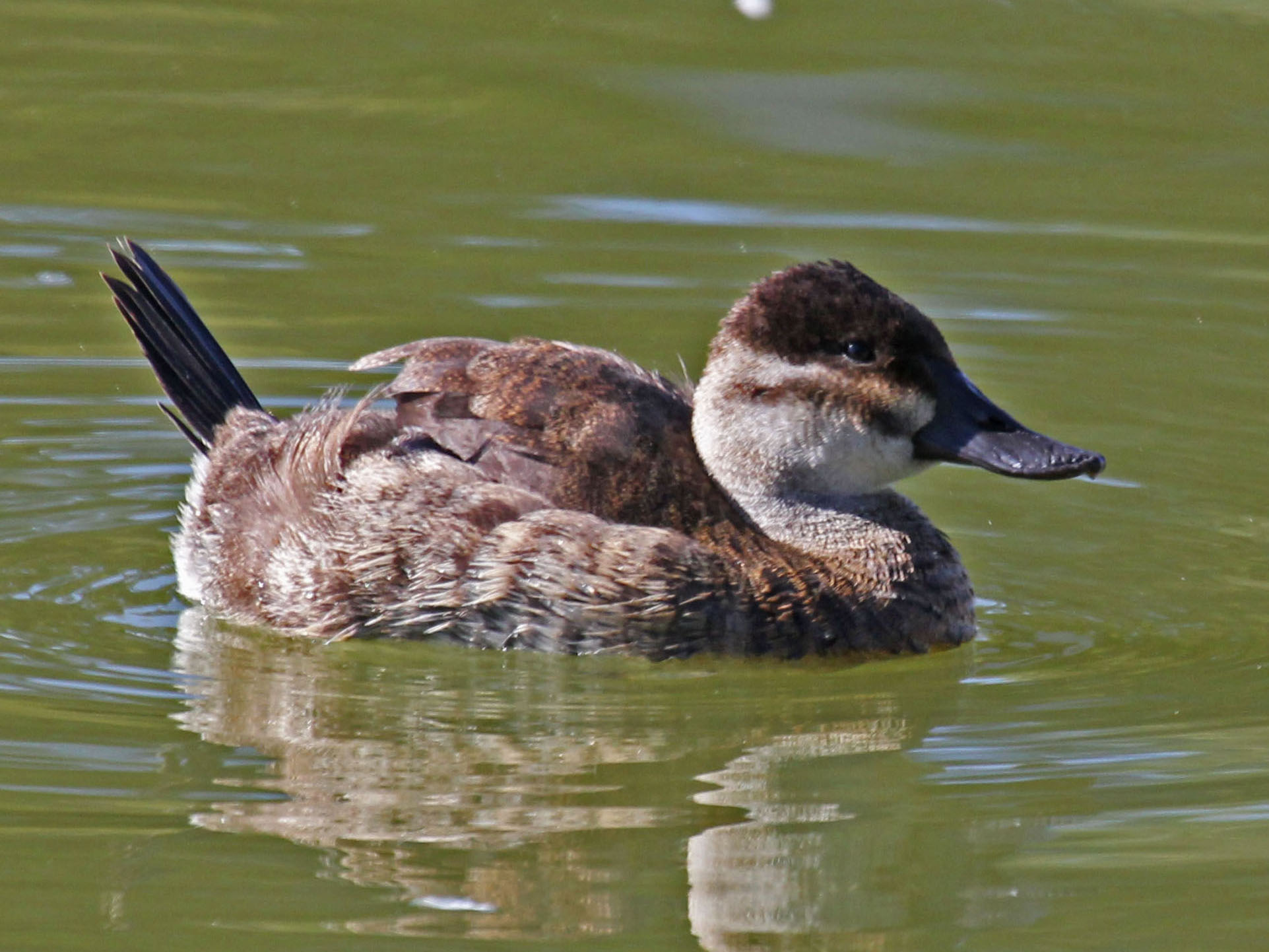 Female Ruddy Duck (Oxyura jamaicensis) - Monterey, California